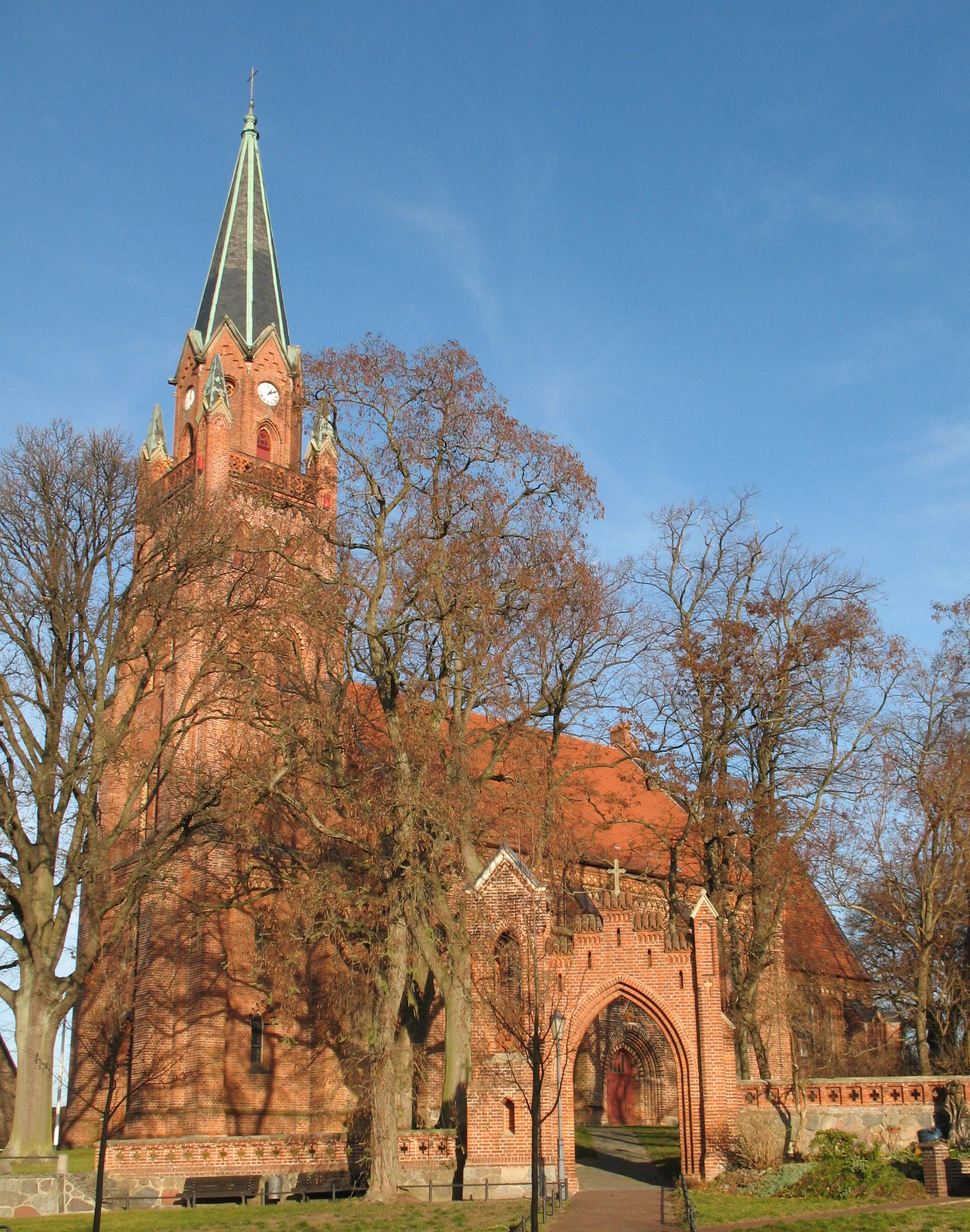 St Mary's Church in Röbel in Mecklenburg-Western Pomerania, Germany